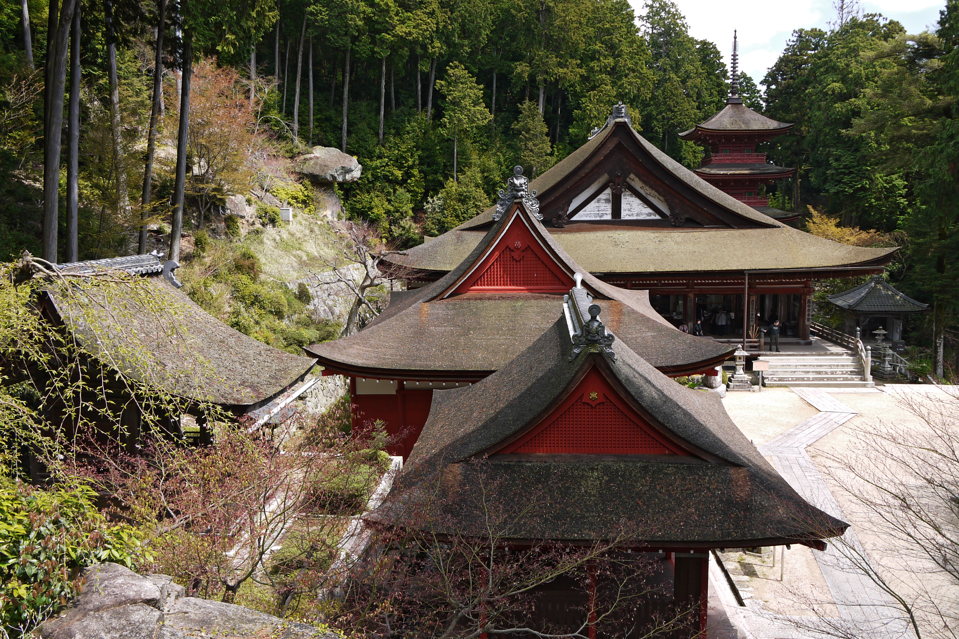 Cyomei-ji in Omihachiman, Shiga prefecture, Japan.